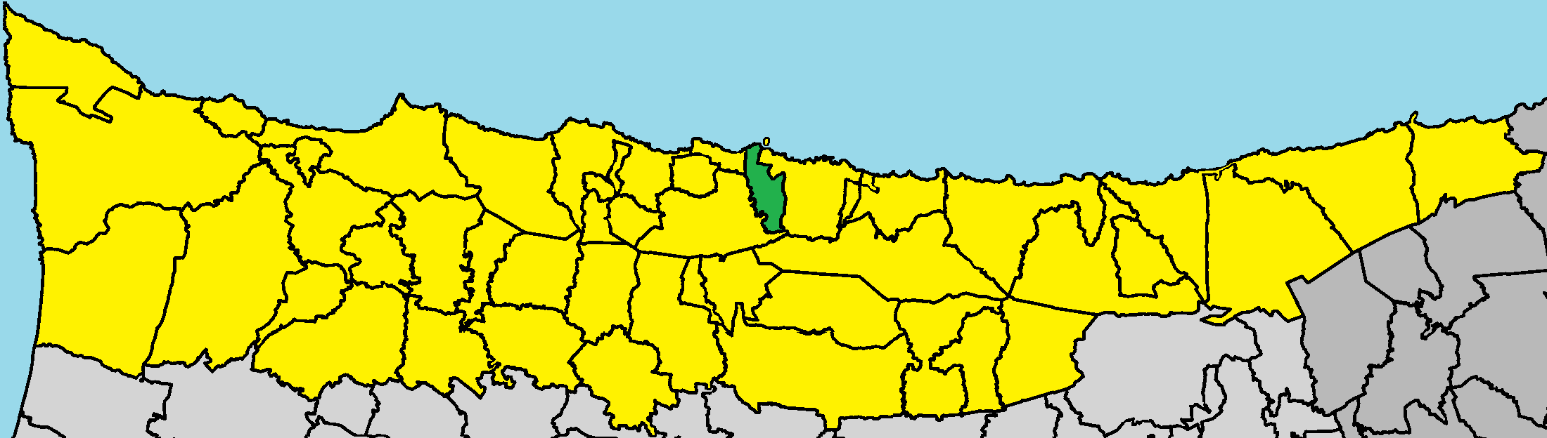 Templos in Kyrenia District (de jure).